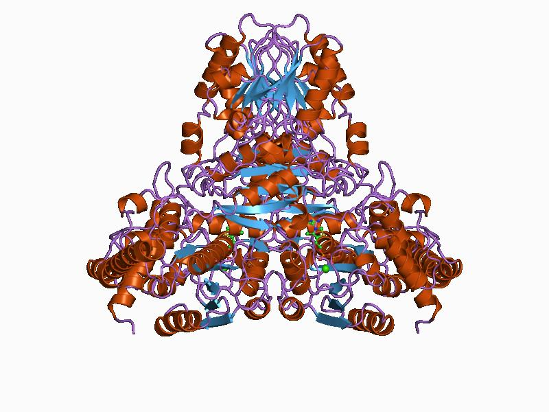 Cartoon representation of the molecular structure of protein registered with 1ay0 code.